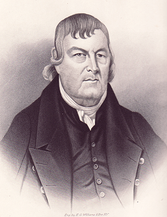 From a book by E. G. Williams and Brothers, engraver "Philemon Hawkins, Jr." Engraving. "Biographical history of North Carolina from colonial times to the present", Volume 5. Greensboro, N.C.: C.L. Van Noppen, published in 1906.